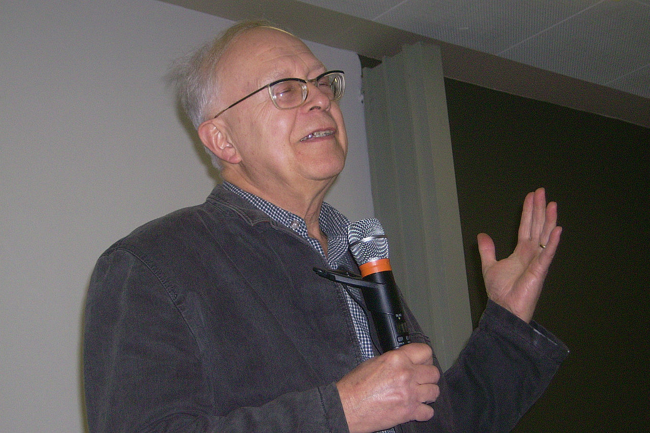 Heinrich-Otto von Hagen, german zoologist and professor at University of Marburg